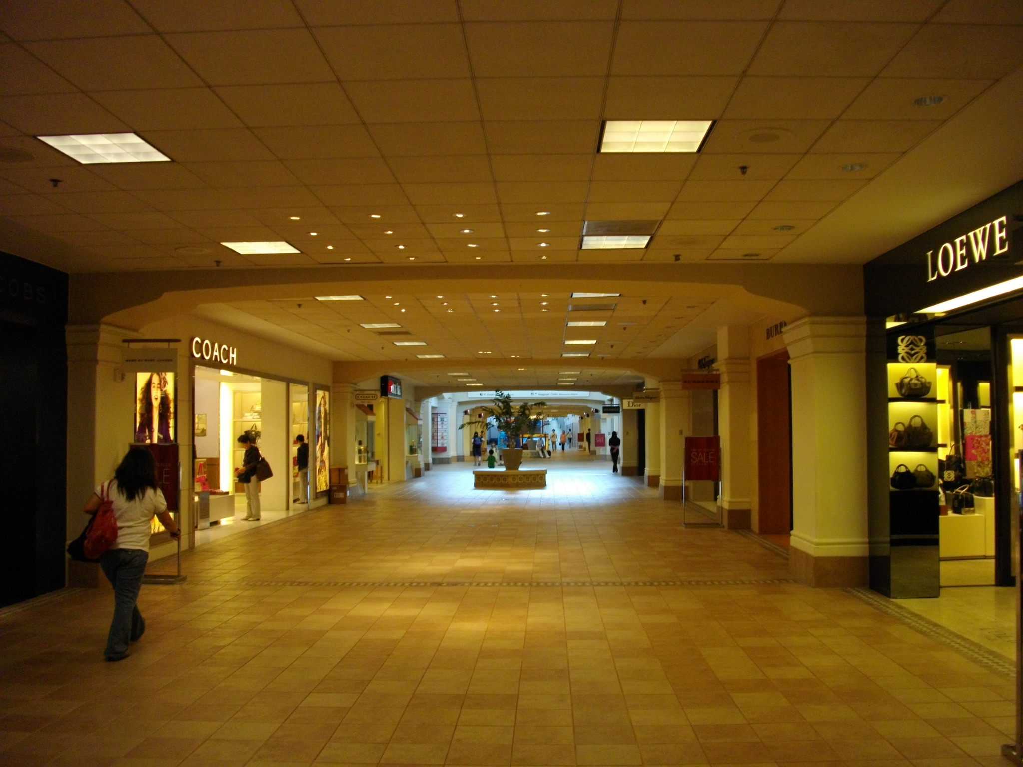 Guam International Airport Duty Free Shop